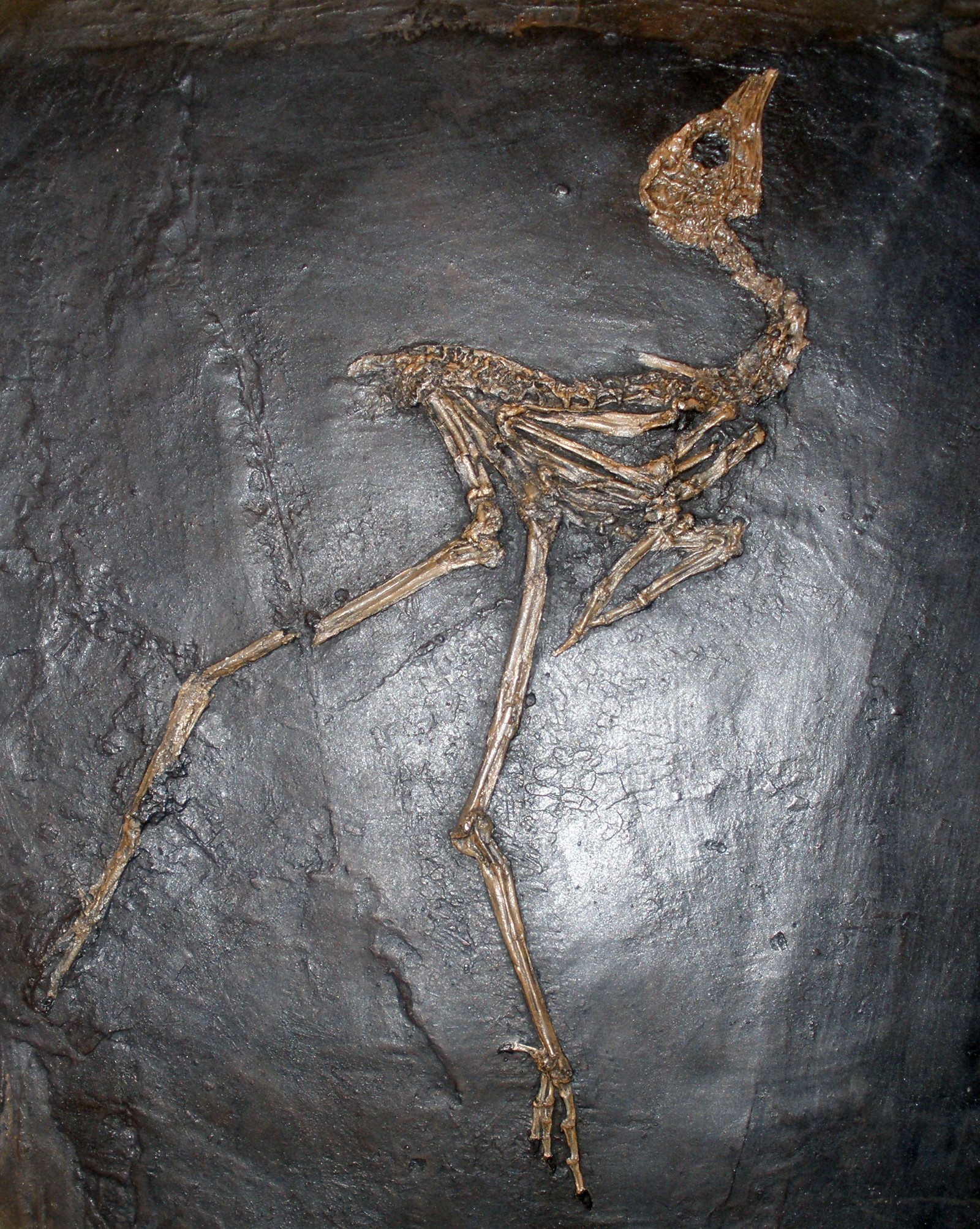 Fossil of cf. Messelornis, an extinct bird Took the photo at Museo di Storia Naturale, Milano